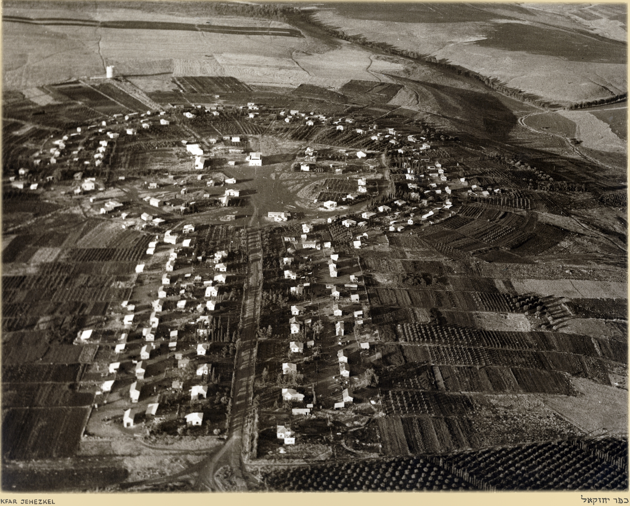 Z. Kluger. Erez Israel from the air - 1937-38